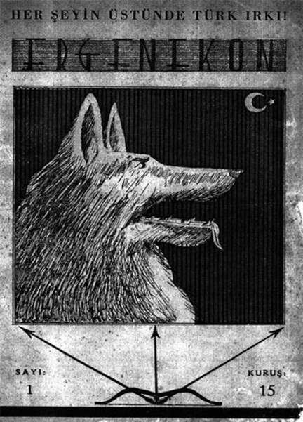 The cover of the first issue of Ergenekon magazine, November 10i 1938.